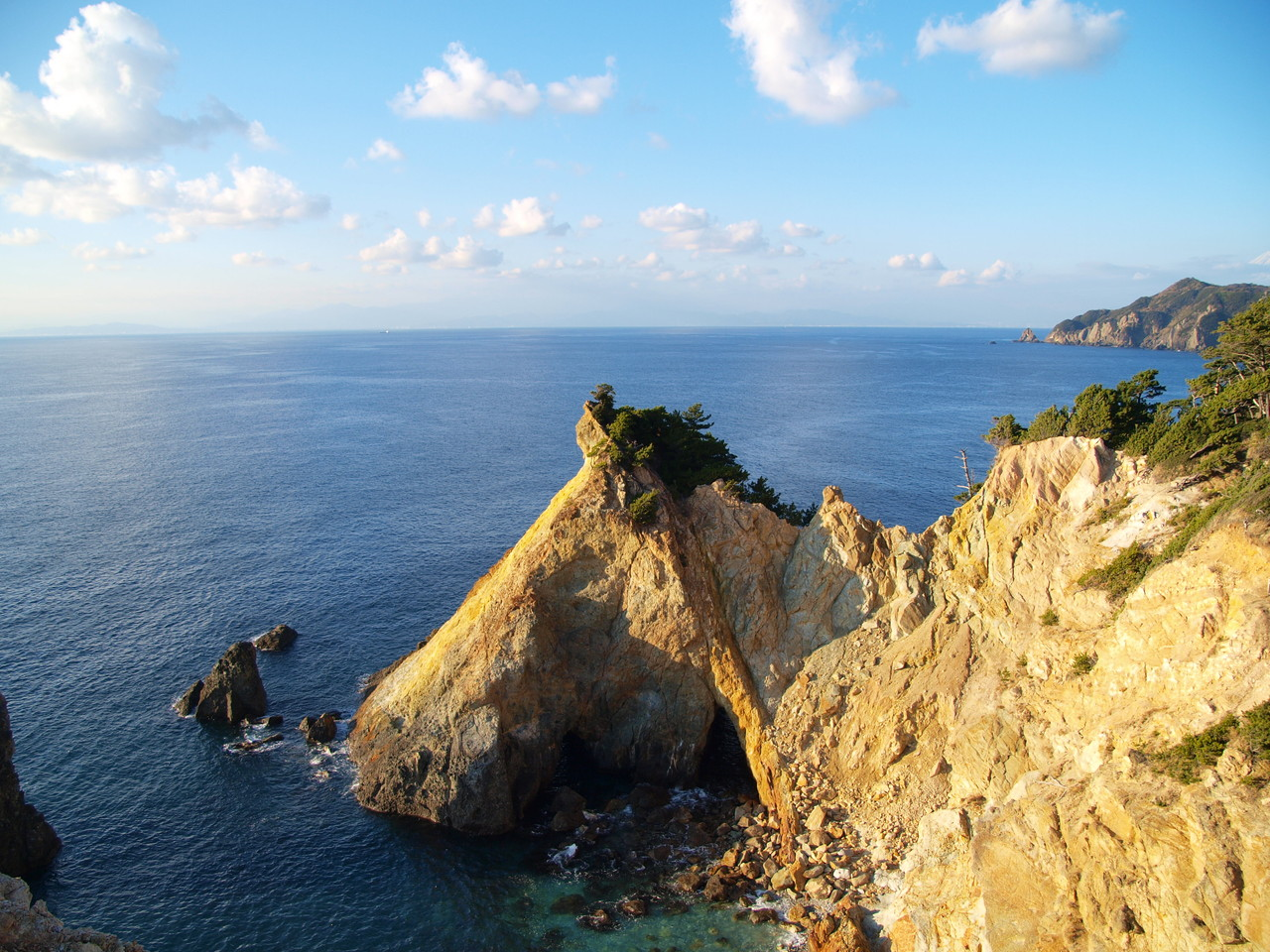 The Koganezaki is located in Nishiizu, Shizuoka prefecture, Japan.